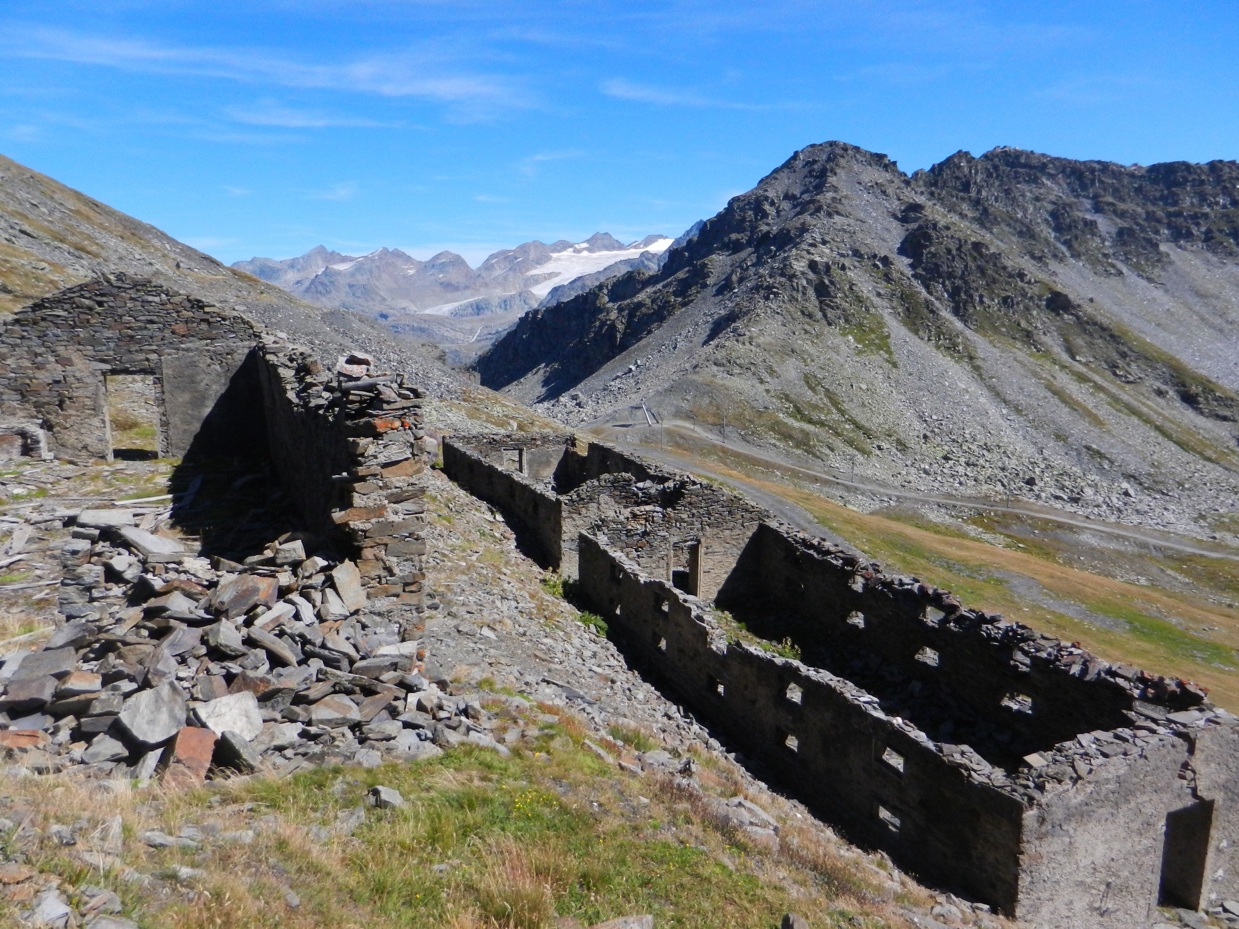 Remains of World War II military installations at Belvedere Pass, near Little St. Bernard Pass